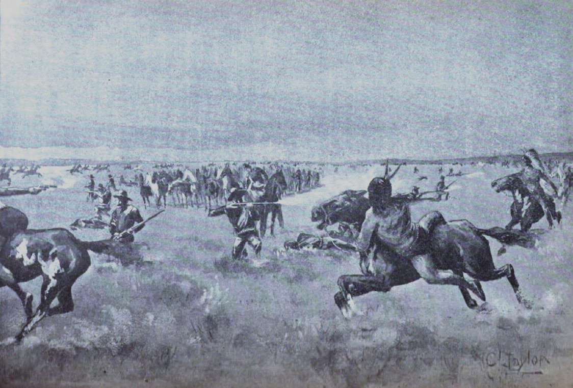 A black and white copy of a painting of the moving "hollow box" during the 8 hour, 15 mile combat by Captain Armes and Company F of the 10th US Cavalry. "Wounded and lifted on Horse" - A painting from the book "Ups and Downs of an Army Officer" written in 1911 by the then Captain George A. Armes during the Battle of the Saline River in August 1867.